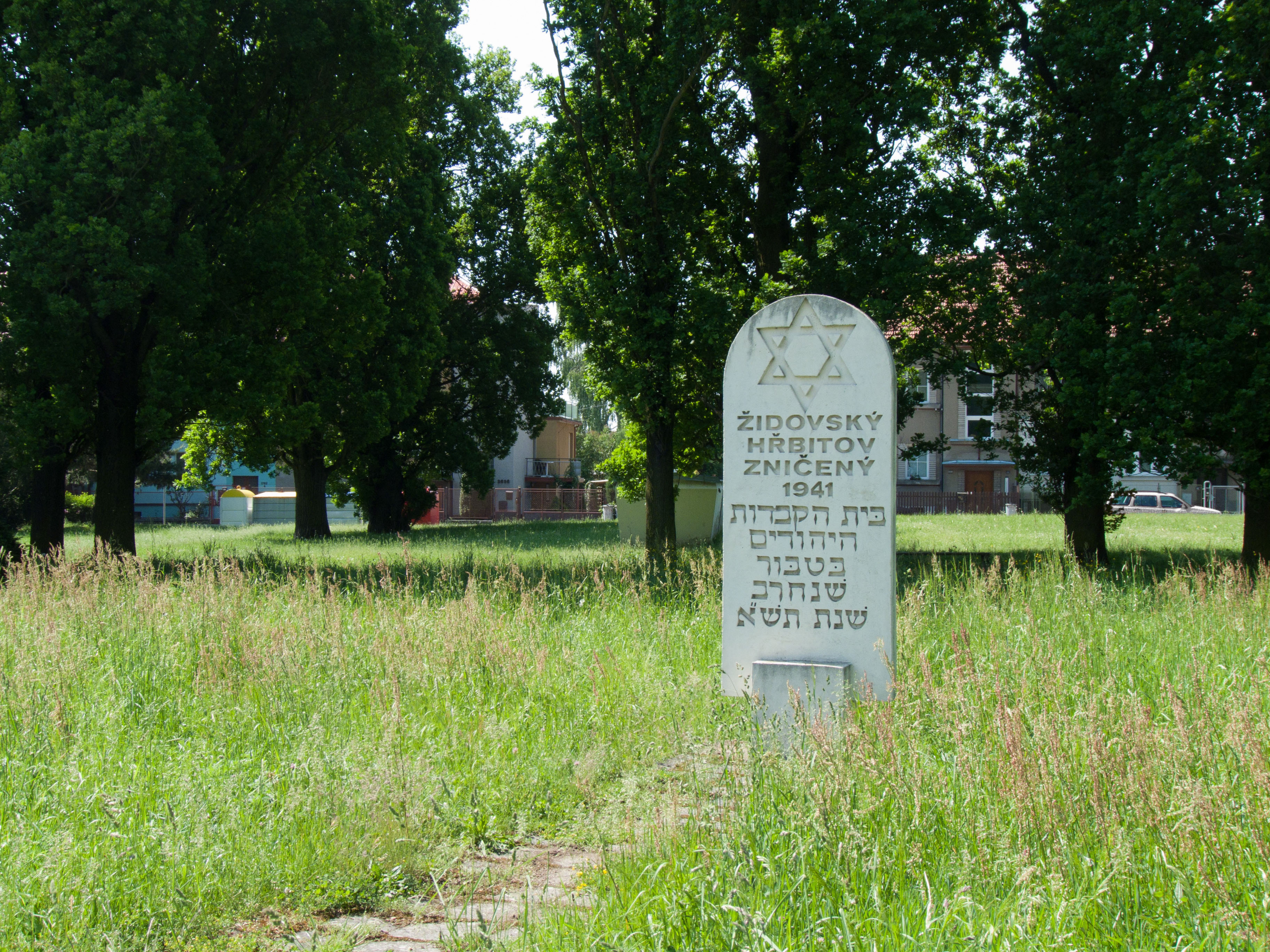 Memorial in the New Jewish cemetery in the town of Tábor, South Bohemian Region, Czech Republic with a poplar avenue from the former cemetery at the back. Česky: Stéla na Novém židovském hřbitově ve městě Tábor, Jihočeský kraj. V pozadí topolová alej původního hřitova